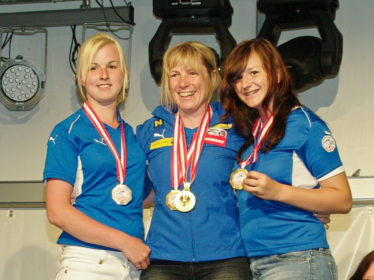 Austrian Grasski Championships 2010 in Rettenbach: Medal ceremony Ladies Super-G: 1st place and Austrian Champion: Ingrid Hirschhofer (middle), 2nd place: Jacqueline Gerlach (left), 3rd place: Nicole Gerlach (right)